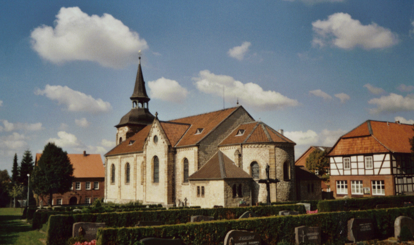 Sorsum (Hildesheim), Church